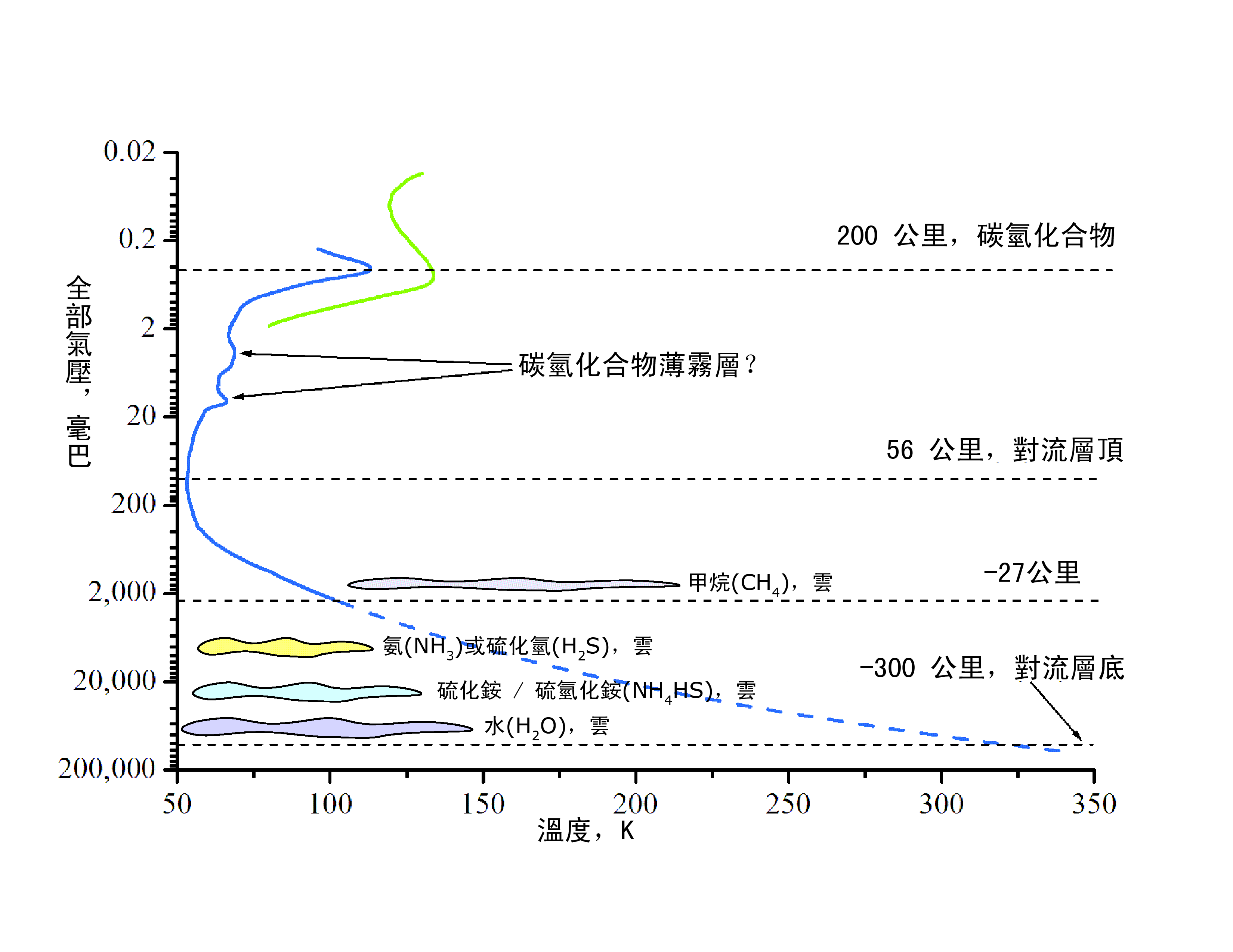 Chinese traditional text version of the tropospheric profile Uranus. Original by Ruslik0, edited by me.